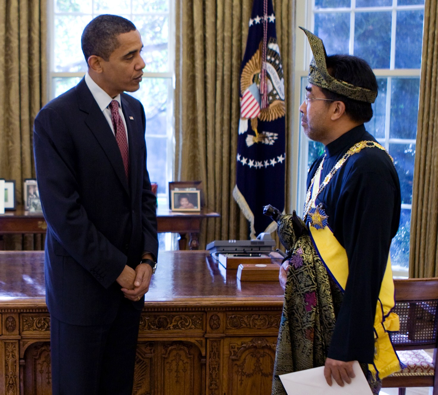 President Barack Obama greets Malaysian Ambassador to the U.S., Jamaluddin Jarjis, during a credentialing ceremony for new ambassadors, in the Oval Office, Nov. 4, 2009. (Official White House Photo by Lawrence Jackson)